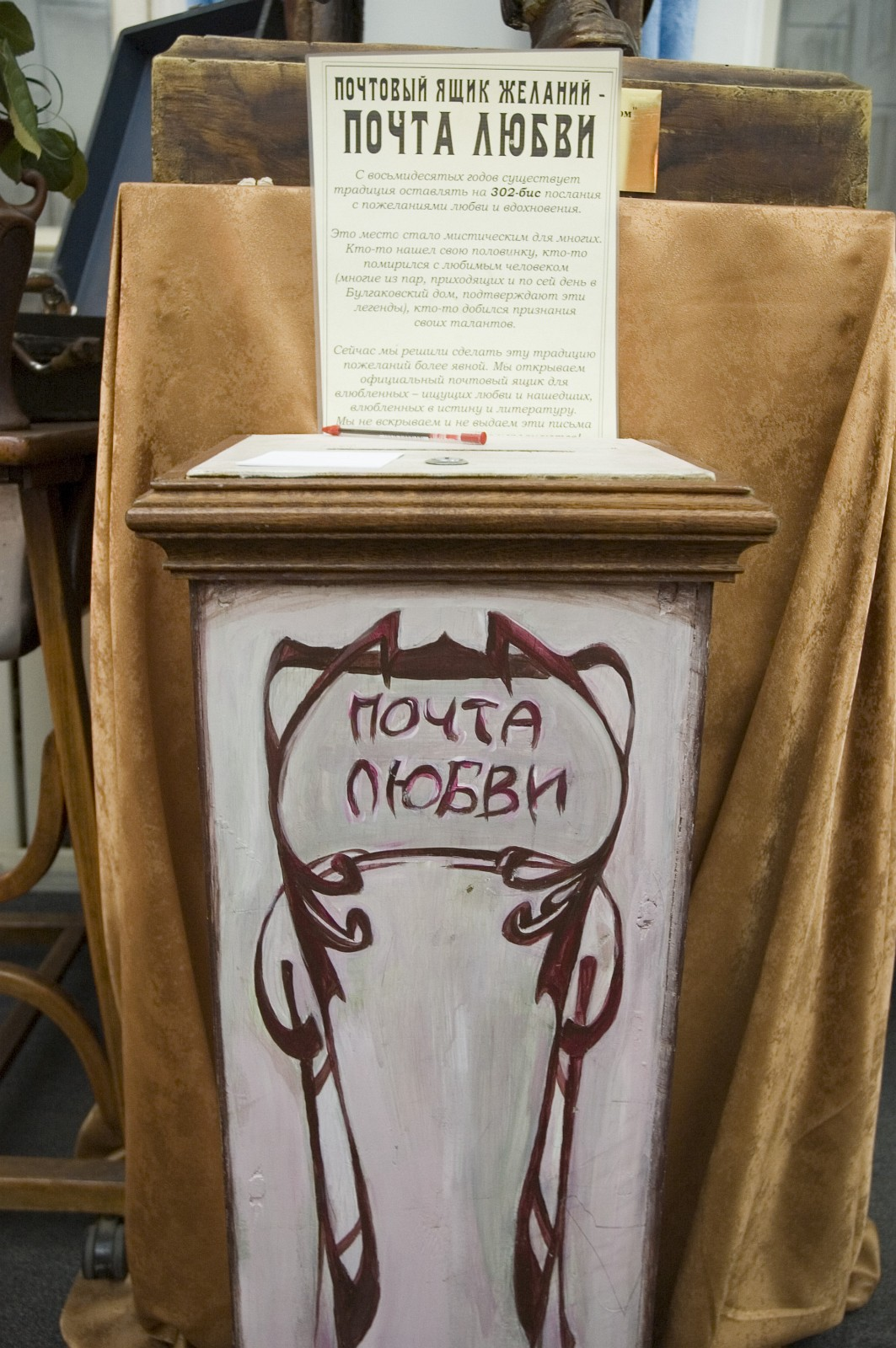 Bulgakov House in Moscow